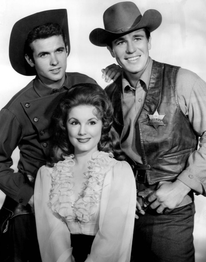 Cast photo from the television program Johnny Ringo. Pictured are Mark Goddard (Deputy Cully), Don Durant (Johnny Ringo) and Karen Sharpe (Laura Thomas).